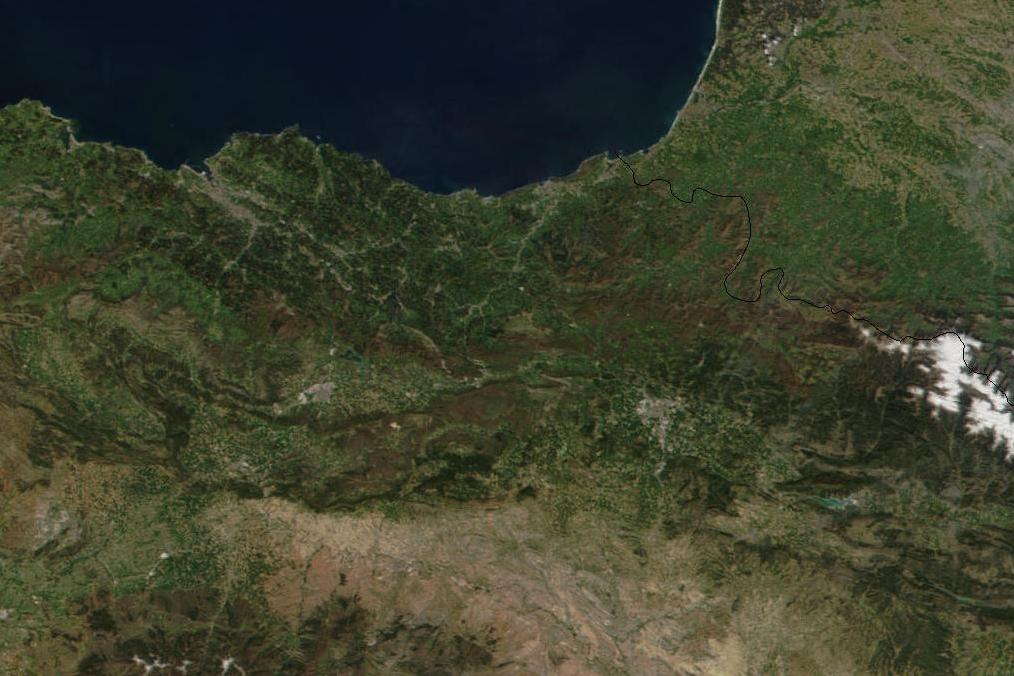 Euskalerria